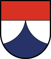 Source: "Fahnen-Gärtner GmbH, Mittersill" This file depicts a coat of arms. The composition of coats of arms are generally public domain with respect to copyright laws, and may be reproduced freely. This corresponds to the international traditional usage, and is explicitly stated in some national copyright laws. Some compositions, of more recent origin, may be copyrighted. This is not a valid license as such, being a "public domain" statement for the coat of arms definition only. It must be completed with the copyright tag associated to the picture creation. See Commons:Coats of arms for further information. Please note that this applies only to the coat of arms definition (composition / description). The representation of a coat of arms is an artistic creation, subject as such to copyright laws. Restriction of use - Legal notice: Most of the time, the usage of coats of arms is governed by legal restrictions, independent of the status of the depiction shown here. A coat of arms represents its owner. Though it can be freely represented, it cannot be appropriated, or used in such a way as to create a confusion with or a prejudice to its owner. Usage on Commons: Please provide licence information for the coat of arm representation, information for the author of the picture, and the source if not self-made work. This image is in the public domain according to Austrian copyright law because it is part of a law, ordinance or official decree issued by an Austrian federal or state authority, or because it is of predominantly official use. (§7 UrhG) To uploader: Please provide where the image was first published and who created it.